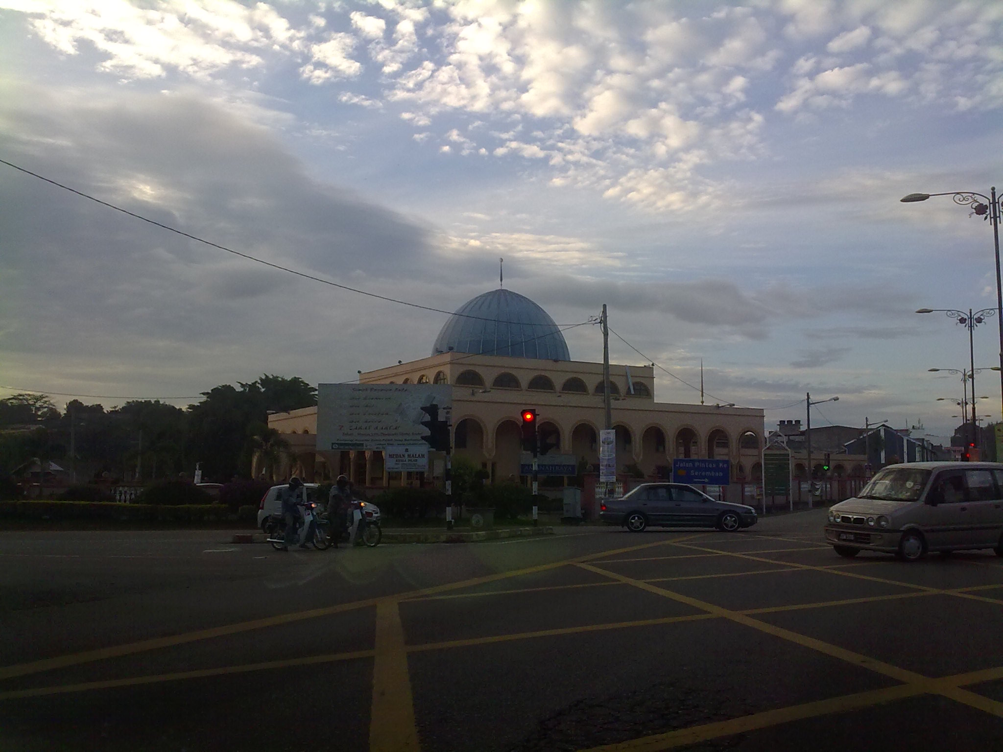 Yamtuan Raden Jamek Mosque, Kuala Pilah, Negeri Sembilan, MalaysiaBahasa Melayu: Masjid Jamek Yamtuan Raden, Kuala Pilah, Negeri Sembilan, Malaysia